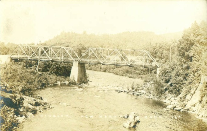 Postcard depicting girder bridge at "Satan's Kingdom" in New Hartford, Connecticut (a small town to the northeast of Hartford, Connecticut)